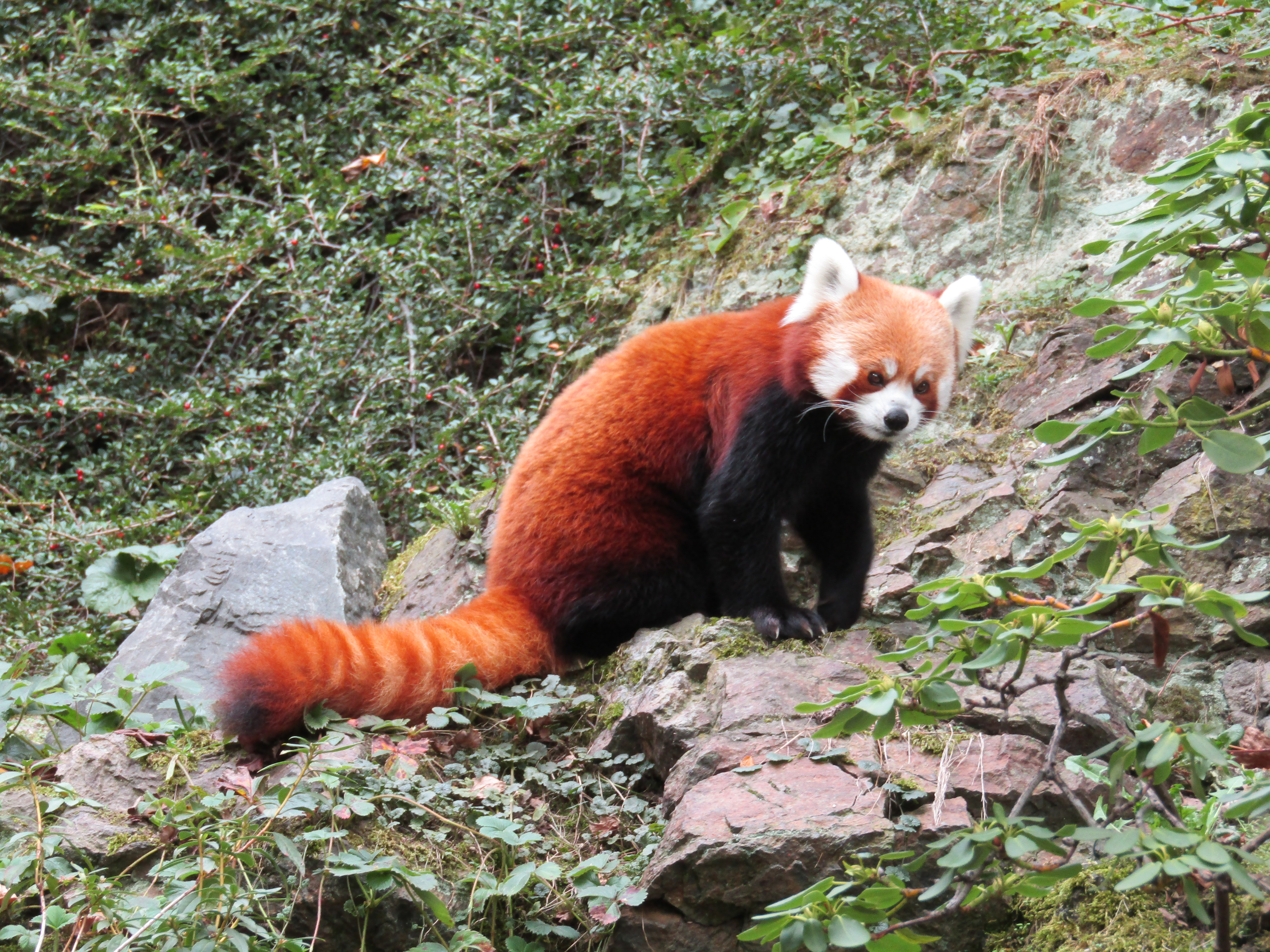 Ailurus fulgens in Prague Zoo